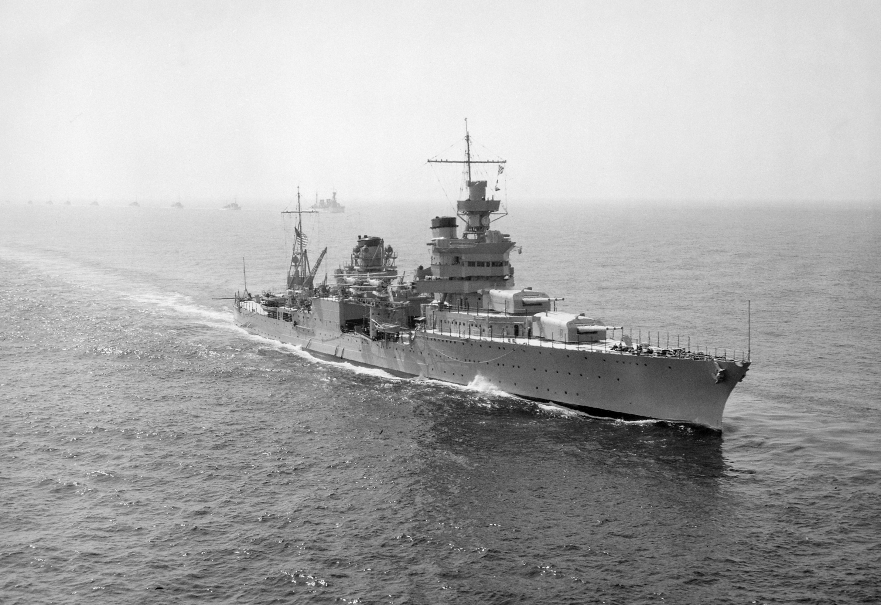 The U.S. Navy heavy cruiser USS Indianapolis (CA-35) underway in 1939. An Omaha-class light cruiser and several Clemson/Wickes-class "flushdeck" destroyers are visible in the background.